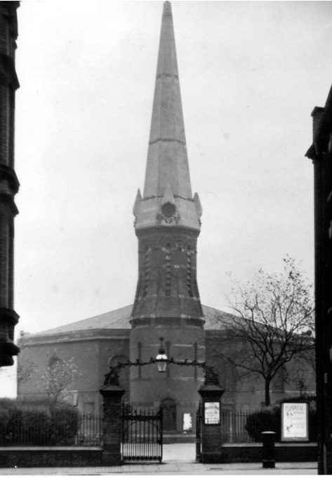 St. Mary's Church, Whittall Street, was built in 1774, under an Act of 1772, as a chapel of ease of St. Martins. The cost of the building which was designed by Joseph Pickford was raised by subscription and the tower and spire were subsequently rebuilt in 1866. A parish was assigned to St. Mary's in 1841 out of St. Martin's. The living had the status of a perpetual curacy in the patronage of trustees until 1868 when it became a vicarage. Under an Act of 1925 the church was closed pending demolition.